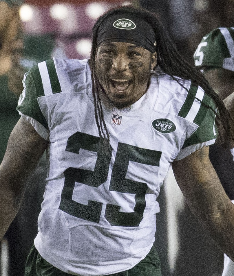 Jets at Redskins 8/19/16